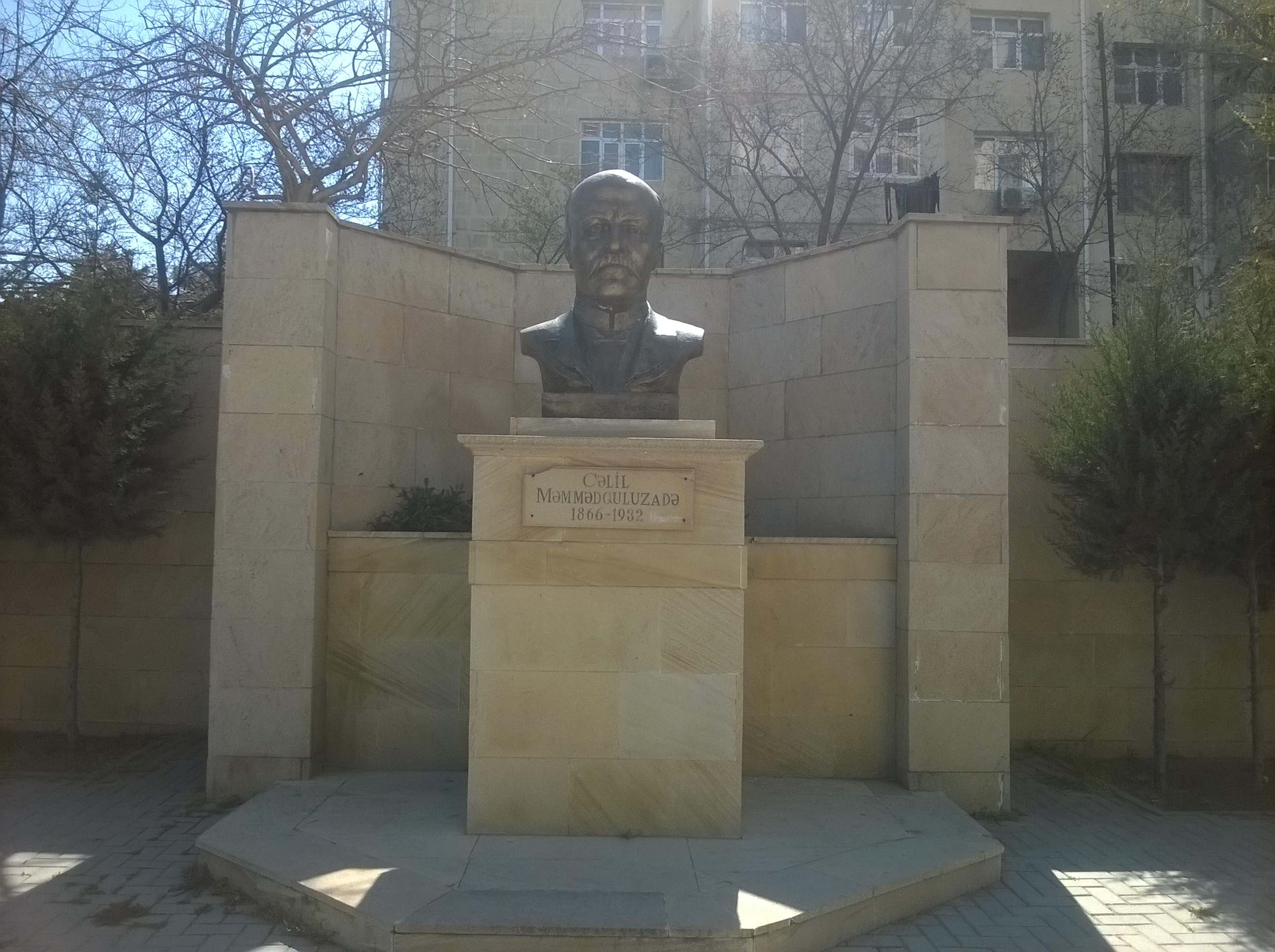 Cəlil Məmmədquluzadənin büstü (Sumqayıt)